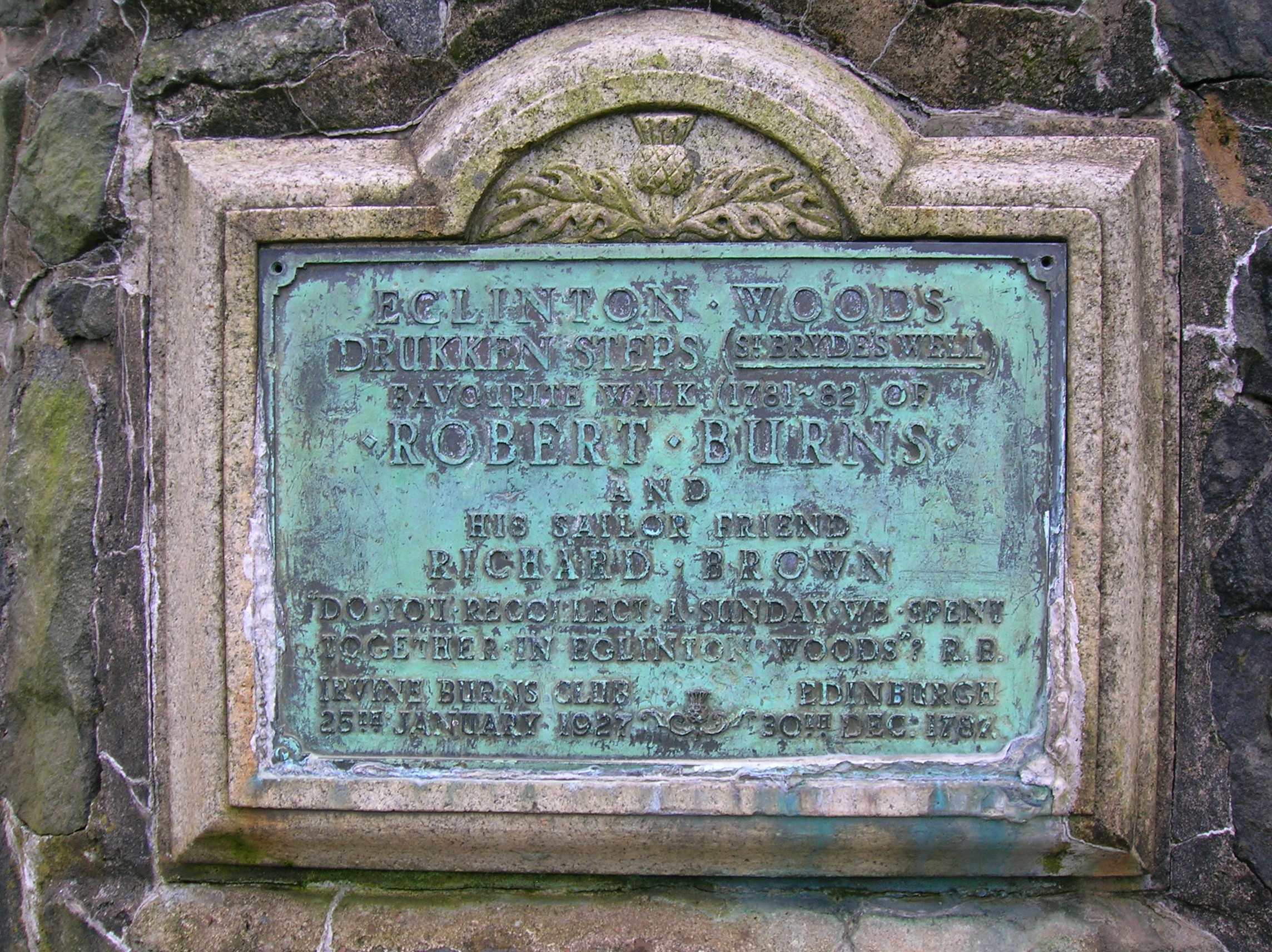 The plaque commemorating Robert Burns and Richard Brown's walks near the Drukken Steps / Saint Bryde's Well near Eglinton Country Park in Irvine, North Ayrshire, Scotland.